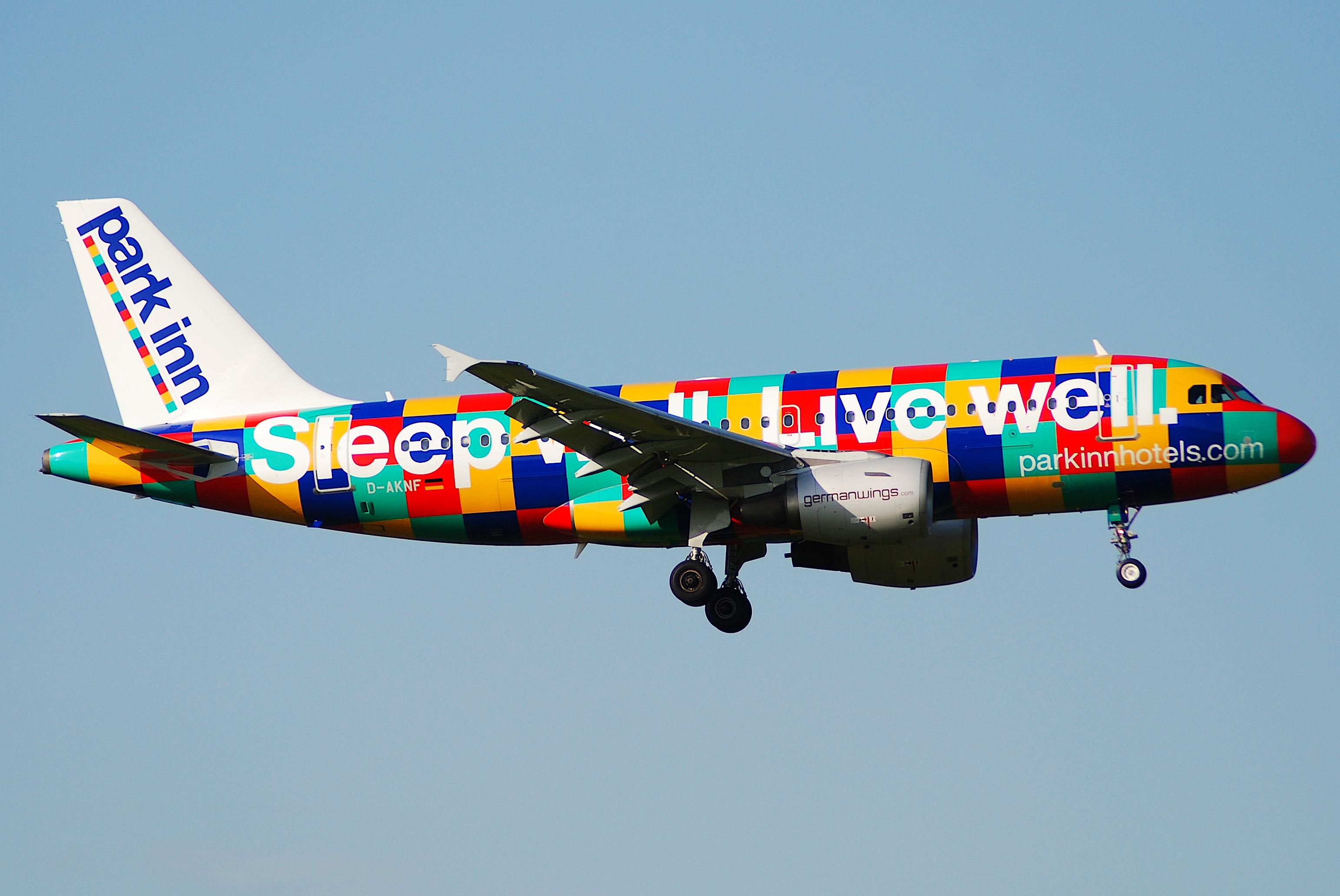 First flight: January 6, 1997...(c/n 646) 27/01/1997 Eurowings D-AKNF 04/10/2002 Germanwings D-AKNF stored 11/2008 21/01/2009 Lufthansa Italia D-AKNF named Torino stored 11/2011 29/05/2012 Lufthansa D-AKNF